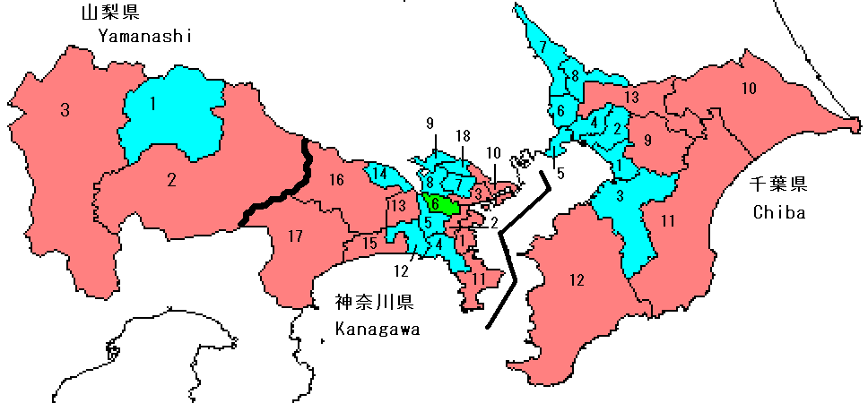 Presentation of the results of the Japan general election, 2003 in the single member districts of the South Kantō block, based on district boundary information in :ja:衆議院小選挙区一覧 and mapping tools provided by Japanese Wikipedia User Koba-chan. Color codes: LDP - red DPJ - light blue New Komeito - green SDP - purple New Conservative Party - dark blue Other/Independent - gray Some independent politicians joined major parties immediately after the election, and their districts are marked with a colored square around the number. This is also true for the members of the New Conservative Party, which was wholly subsumed into the LDP.